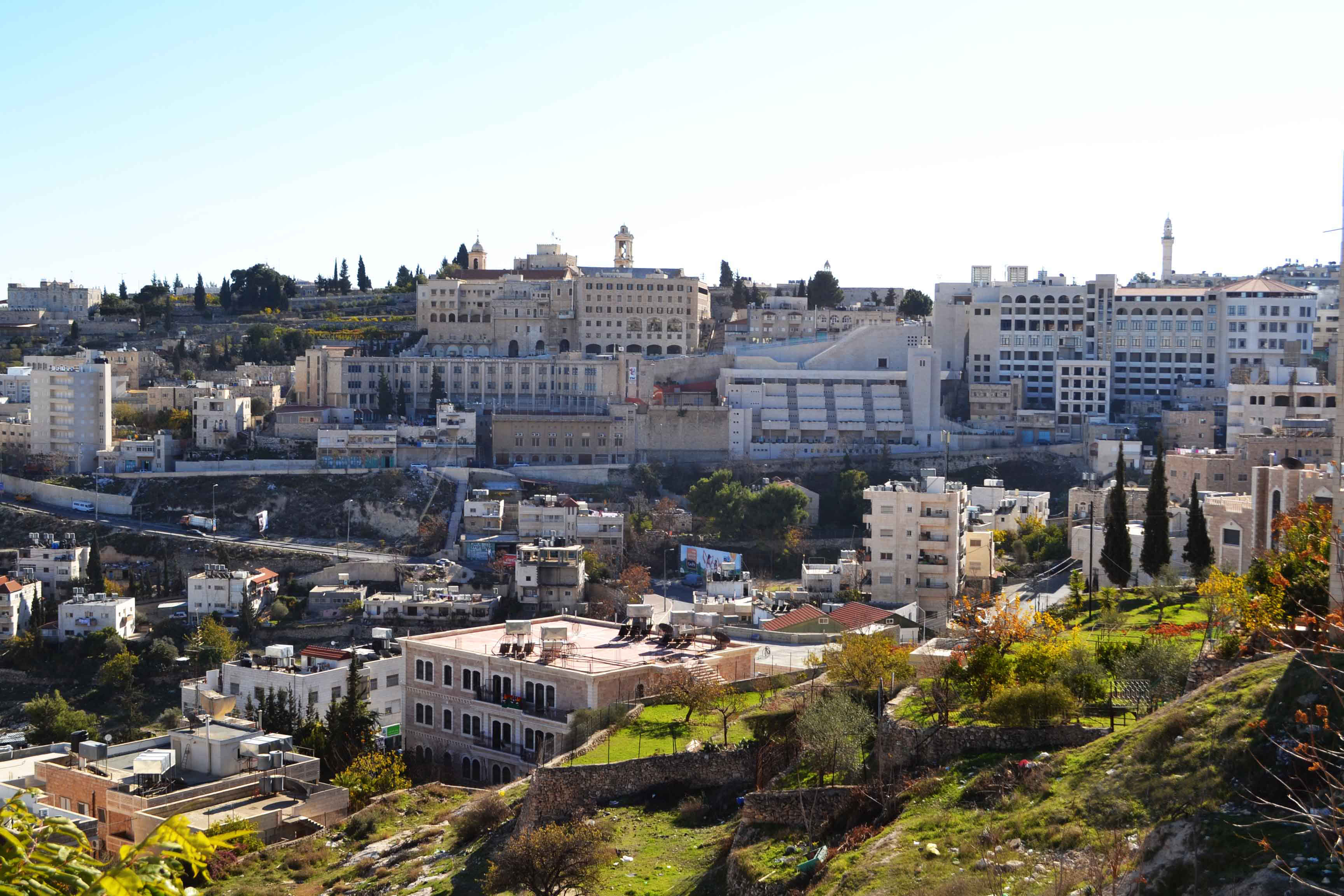 Bethlehem Overlooking View